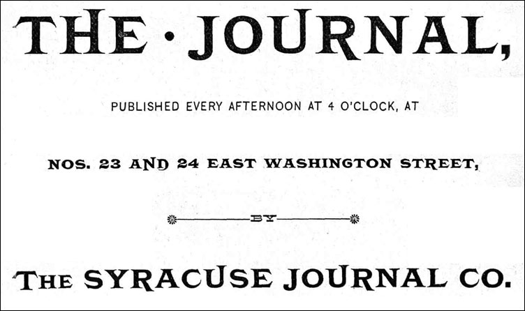 Syracuse Journal newspaper logo